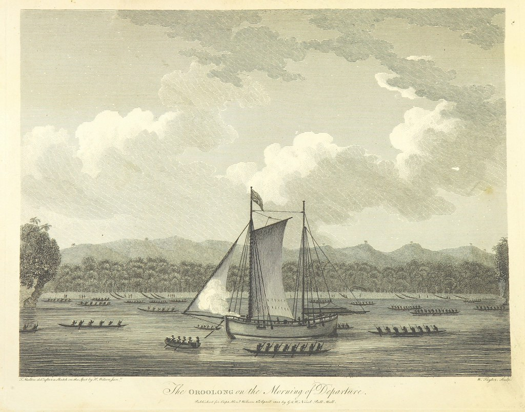 The Oroolong on the Morning of Departure from Oroolong Island (today Ulong Island). Published by G. Nichol, for Capt. Henry Wilson.